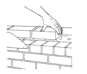 Diagram showing how to